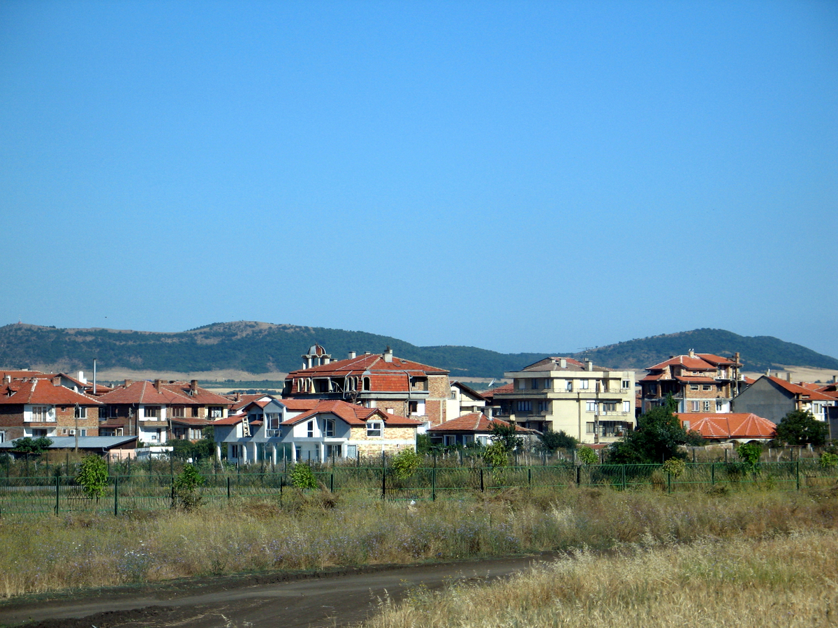 Aheloy. Panorama.Foto by Viktor Belousov